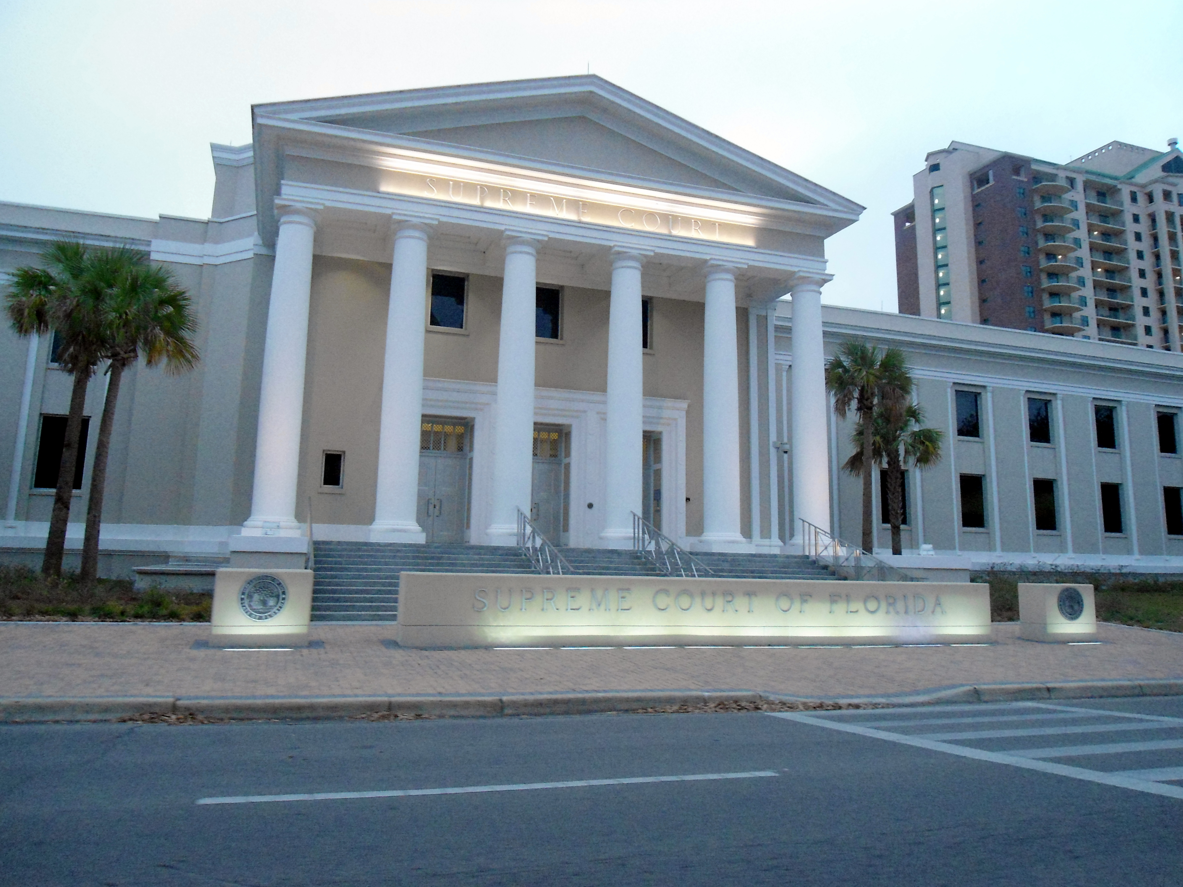 The Florida Supreme Court building in Tallahassee, FL